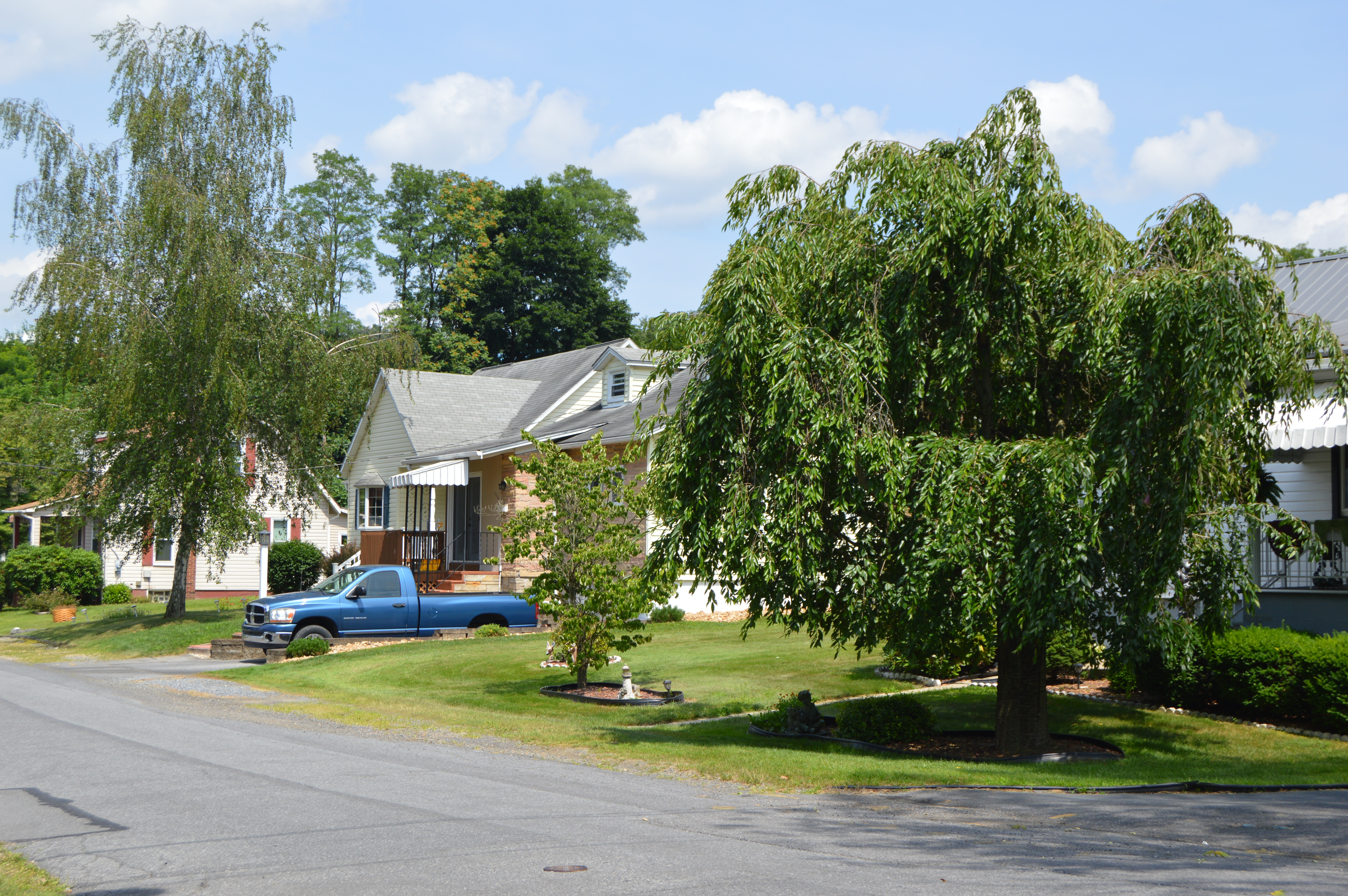 Houses on Riffith [sic] Street northeast of Price Street in Oakland, Pennsylvania, United States.